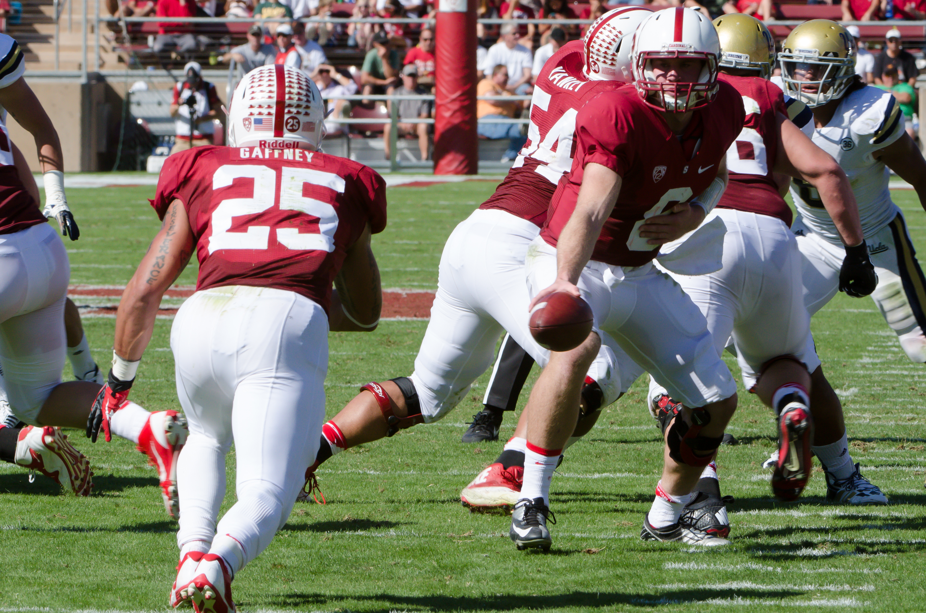 Stanford Cardinal Kevin Hogan Tyler Gaffney David Yankey